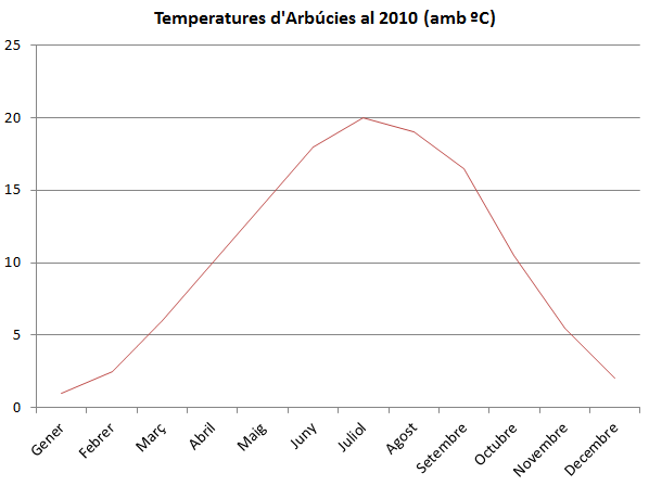 Average temperatures in 2010 in Arbúcies